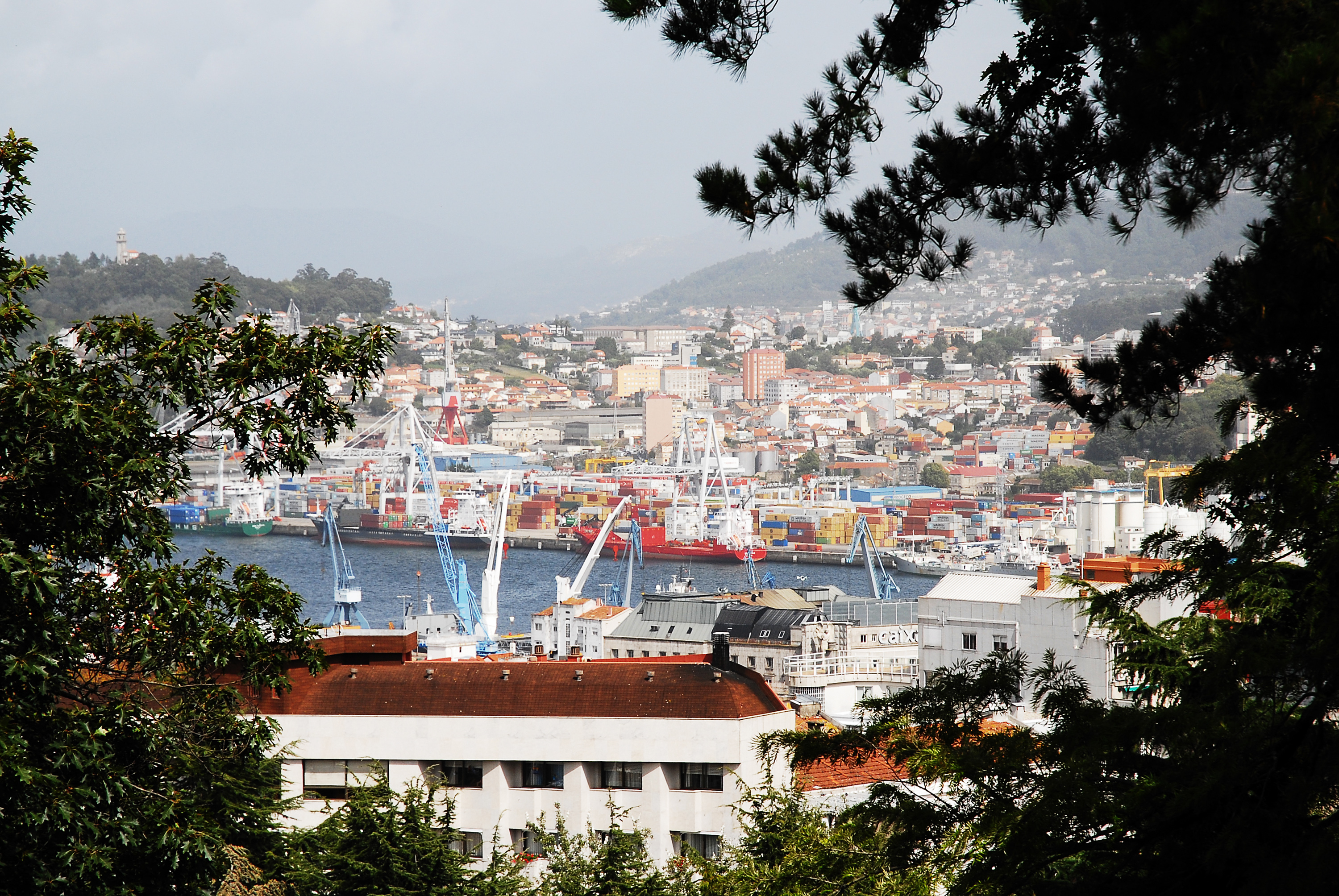 View on the port of Vigo. Galicia, Spain,Southwestern Europe.